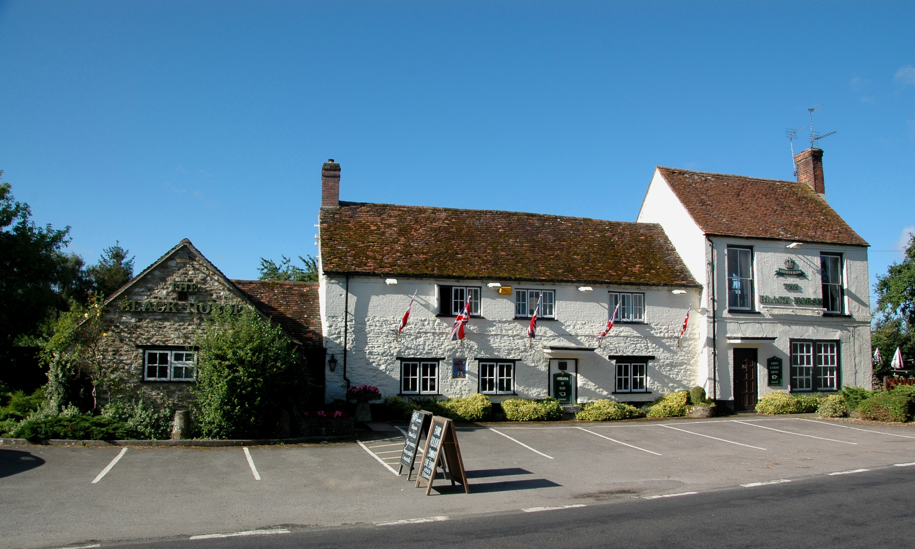 Black Horse public house, Faringdon Road, Gozzard's Ford, Marcham, Oxfordshire (formerly Berkshire)